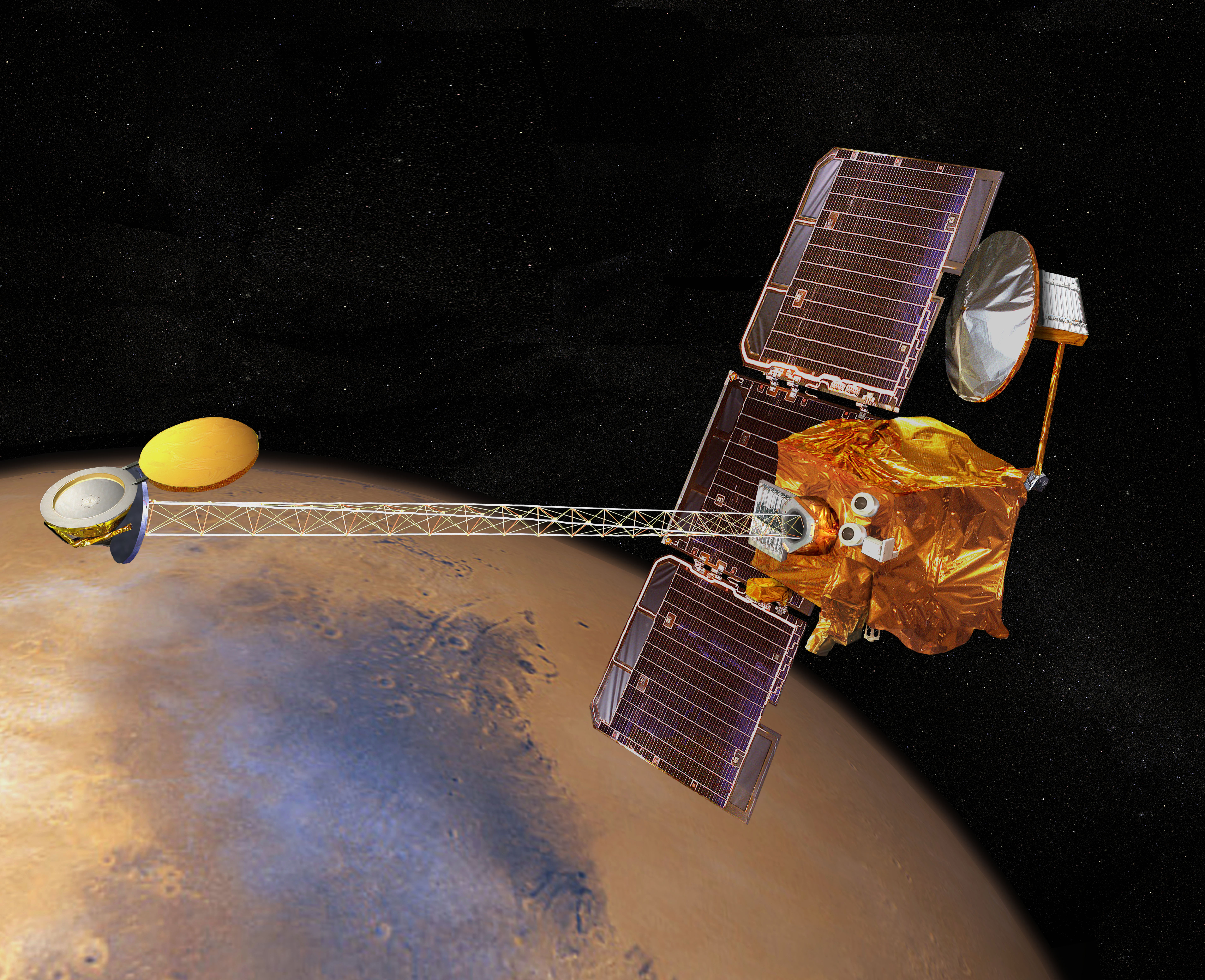 Artist's concept of 2001 Mars Odyssey spacecraft over Syrtis Major Planum.